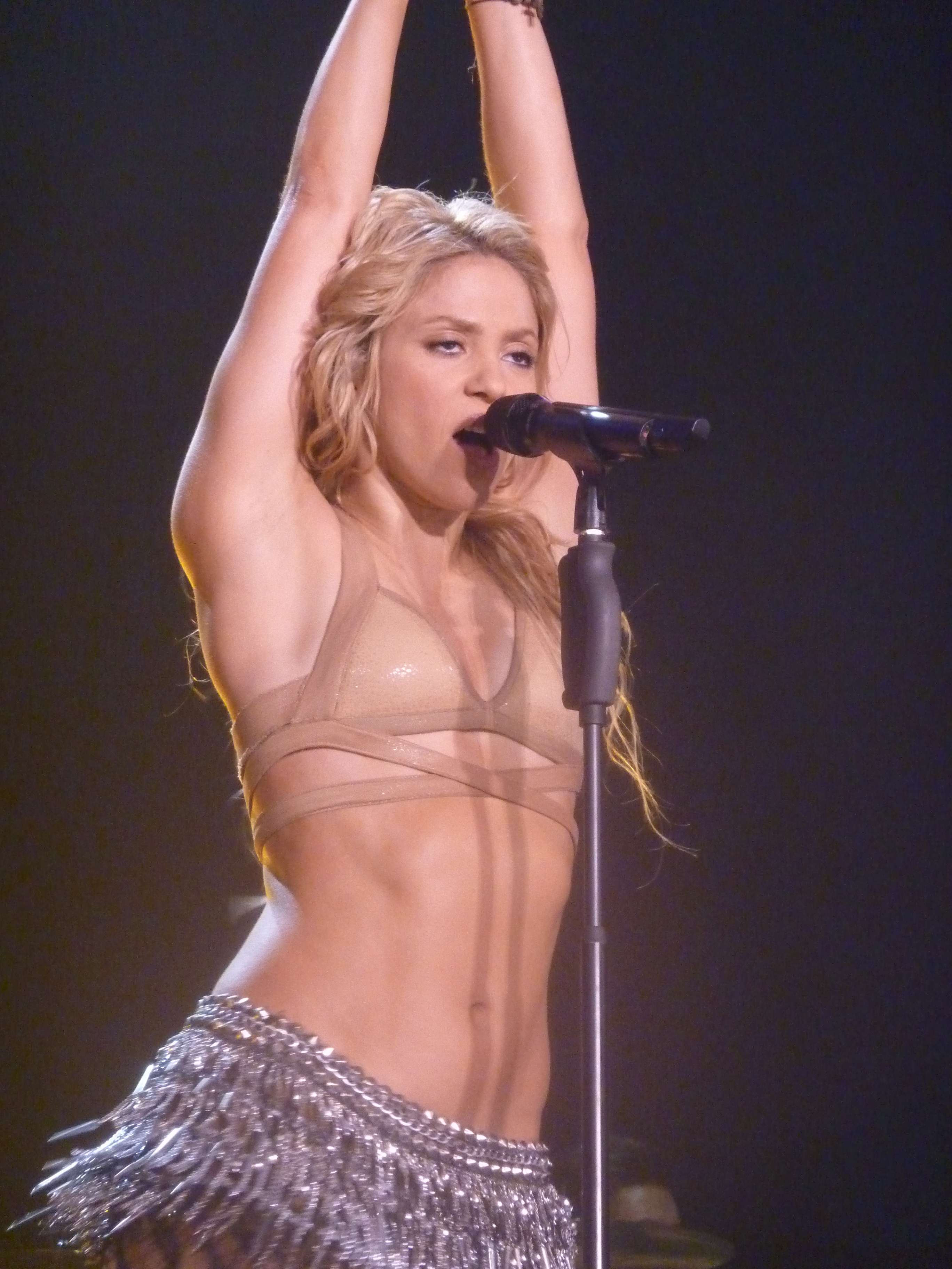 Shakira in concert in Palais Omnisports de Paris-Bercy, Paris in 2010.